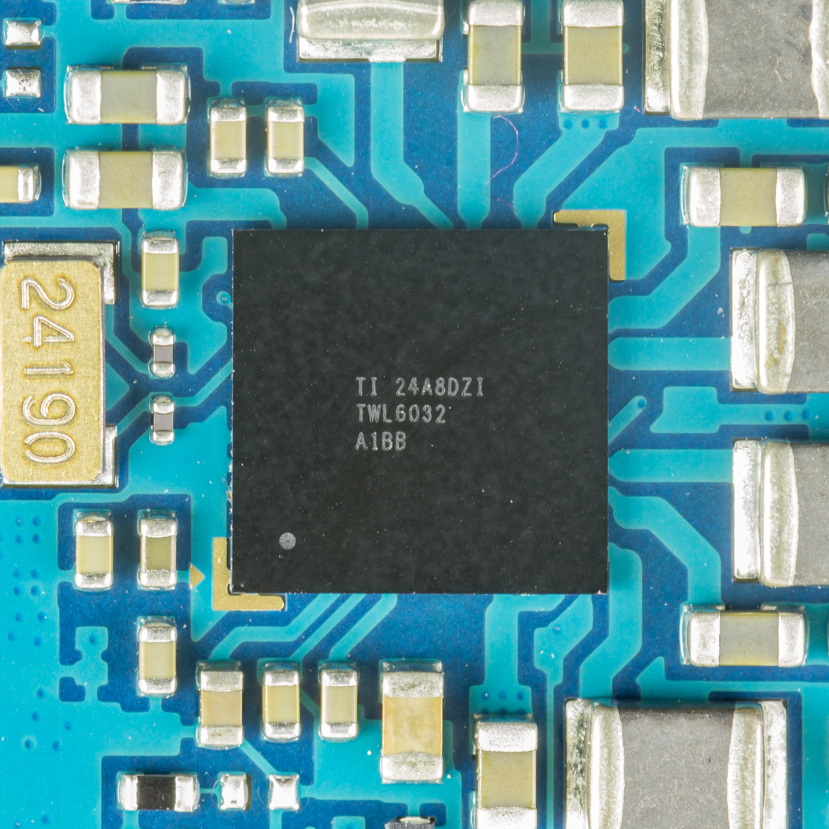 Samsung Galaxy Tab 2 10.1 - Texas Instruments TWL6032 - Fully Integrated Power Management with Power Path and Battery Charger. Package: 155-pin WCSP